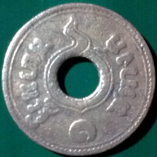 Old hollow copper coin 1 Satang (0.01 Baht), also called the Red Satang, since 1937 (The year might be inaccurate because it is blurred.) from my coin album. Front face said, "State of Siam, 1 Satang."